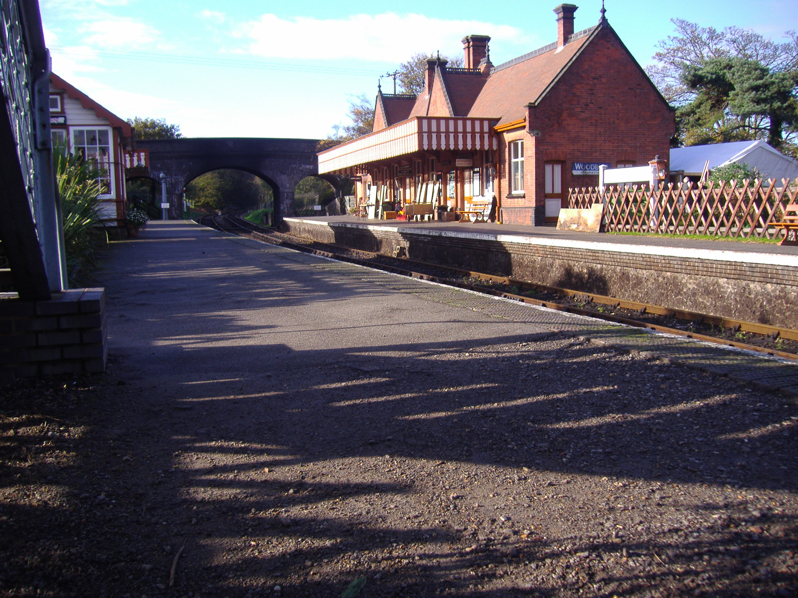 An Original Digital Photograph of Weybourne Railway Station November 2006, by Mark Hobbs